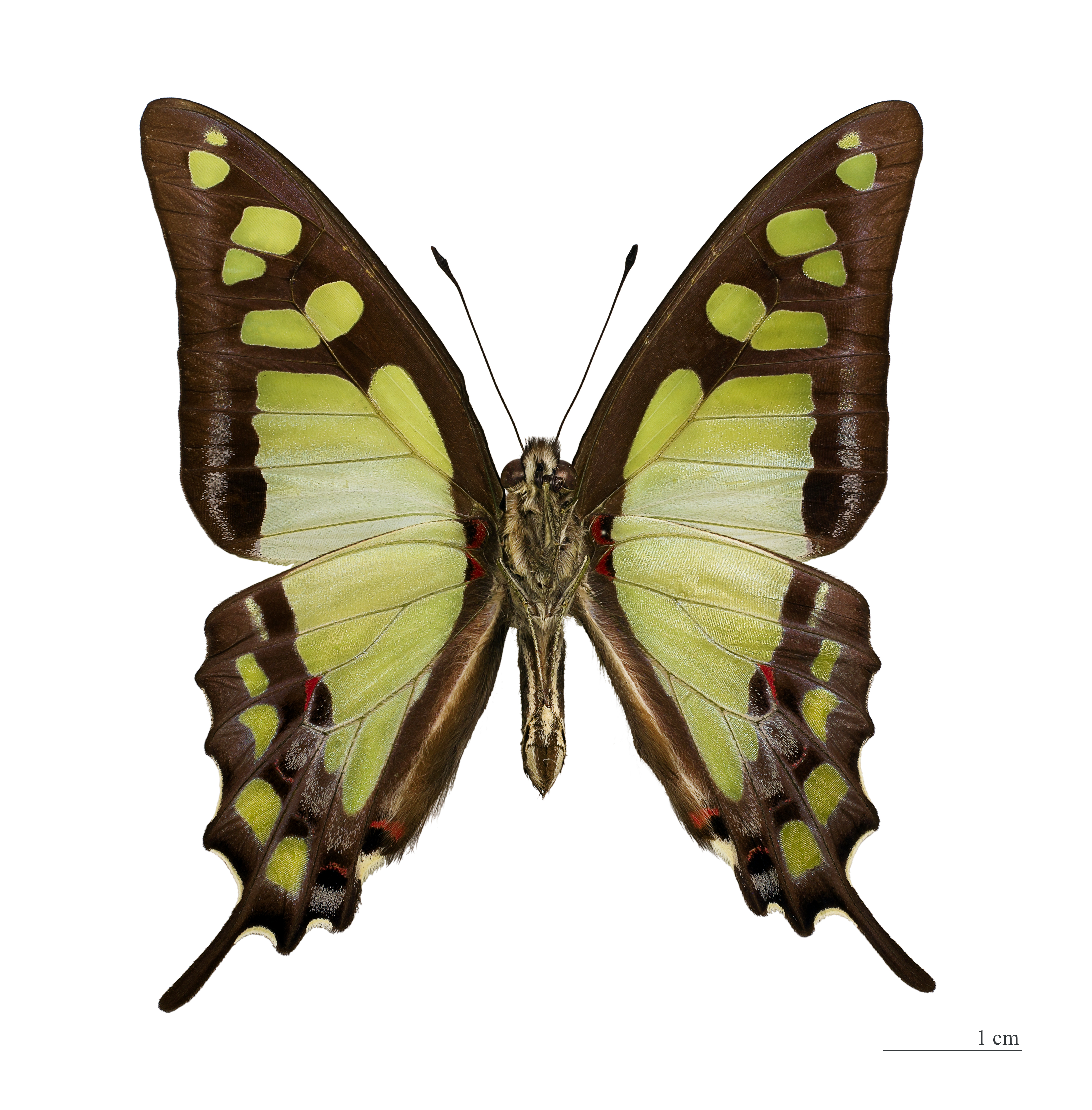 ♂ - △ Ventral side Locality: Brastagi, Sumatra, Indonesia.